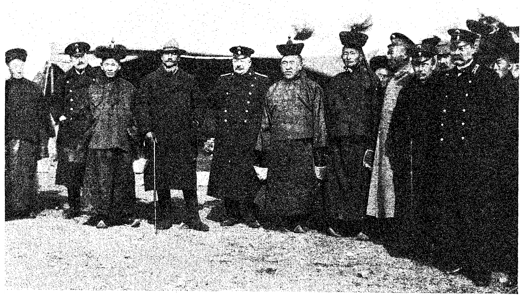 Image from With the Russians in Mongolia